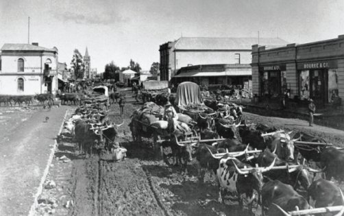 Bourke & Co. general dealers shown in the late 1800s on the right hand side of the street